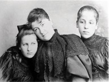 Alma Mahler with her mother Anna and Sister Grete (early 1890s?)